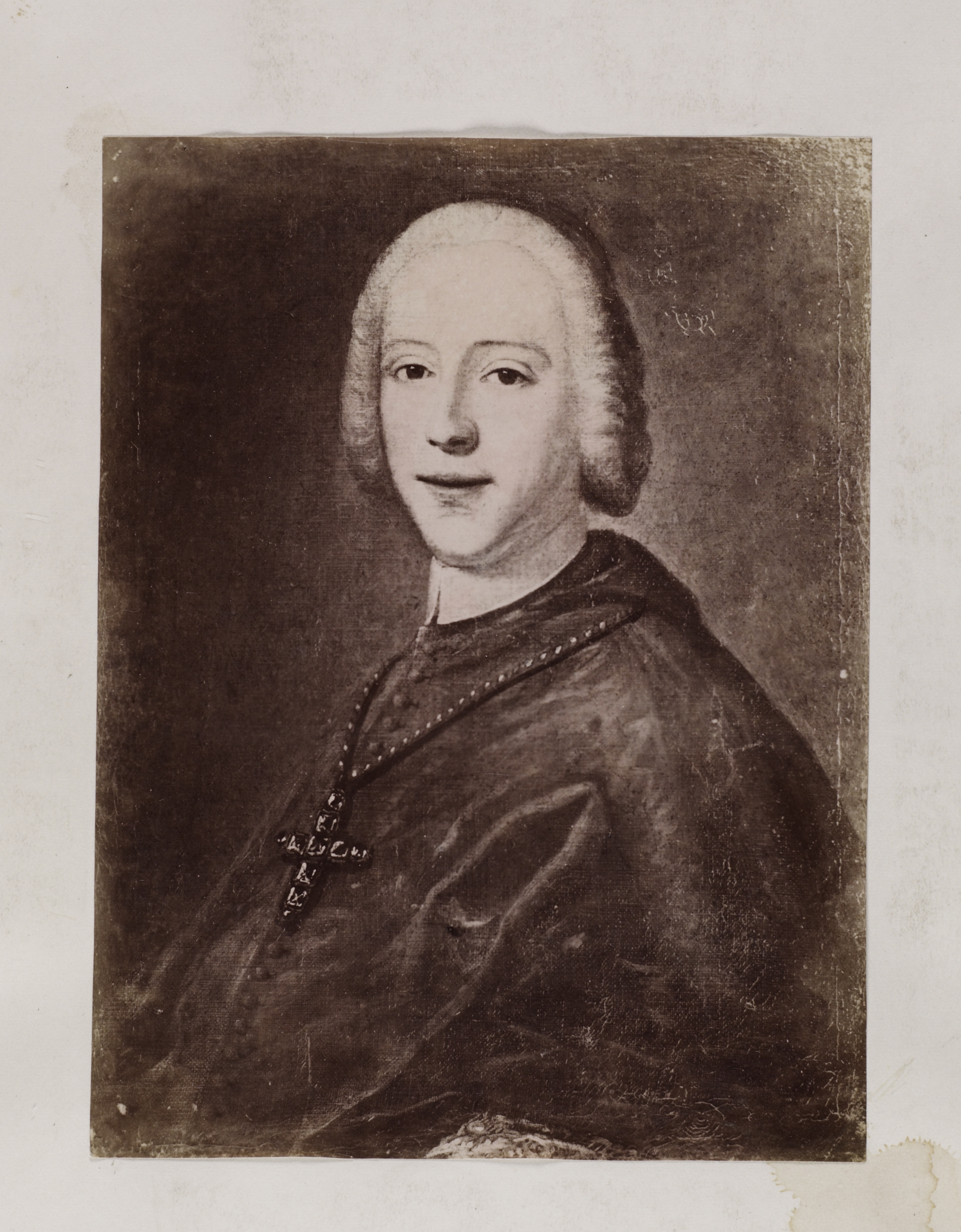 Portrait presented to the Scots College in Rome by Prince Henry Portrait of Prince Henry in middle age, dressed in clerical robes, and ornate cross, handwritten note: "Cardinal York prestened by himself to the Scots College Rome (Blair College Abd)"